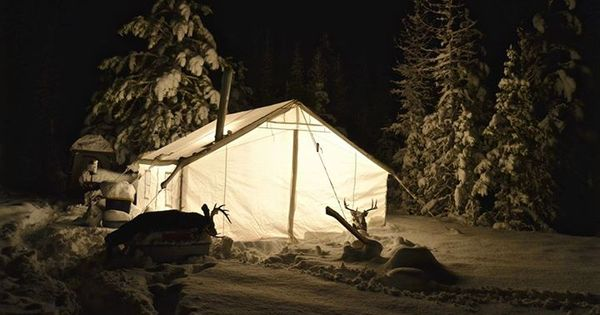 A wall tent (aka safari tent, outfitter tent, canvas tent) in the winter with a stove. Photo by Elk Mountain Tents